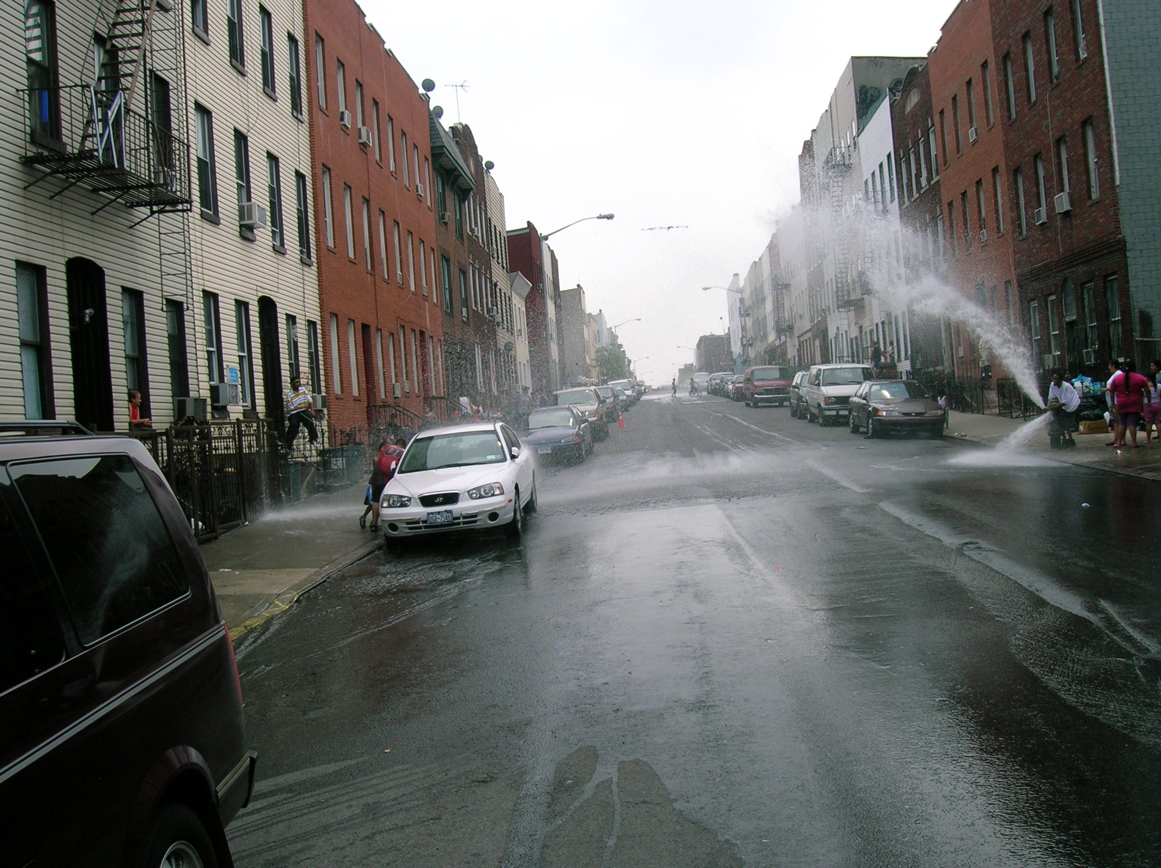 Jefferson Street scene. Looking southwest from near Knickerbocker Ave